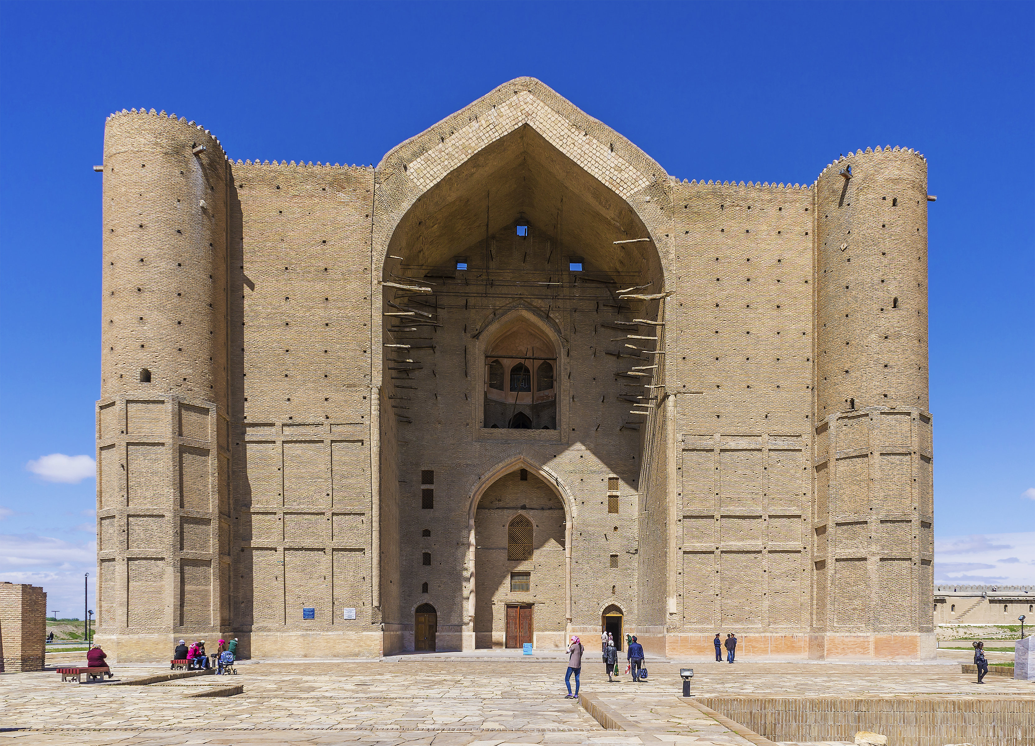 Mausoleum to Koja Ahmad Yassaui (UNESCO World heritage site), Turkistan, Kazakhstan. Prime example of Timurid arhcitecture.